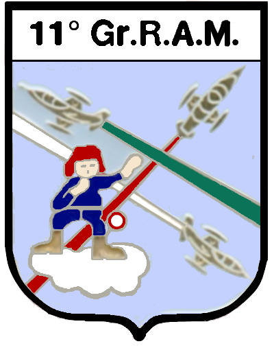 ensign of the 11º Gruppo Radar (11th Radar Group) of the Aeronautica Militare (Italian Air Force).